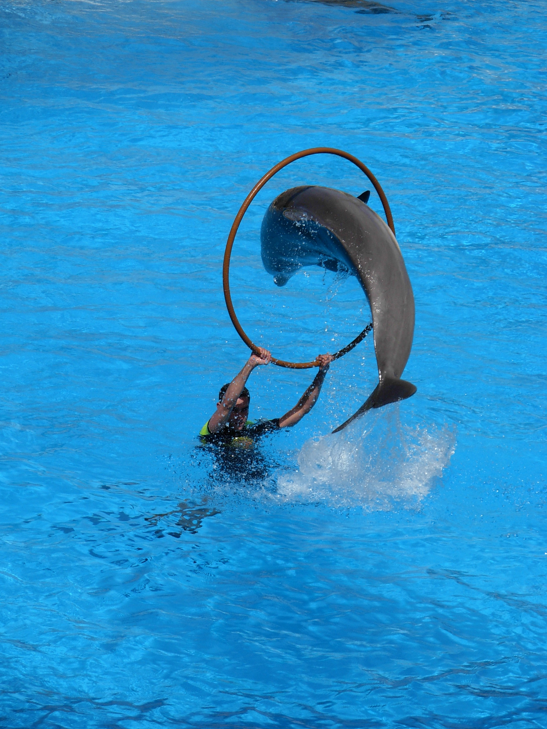 Dolphins at Loro Parque, in Tenerife island (Spain).